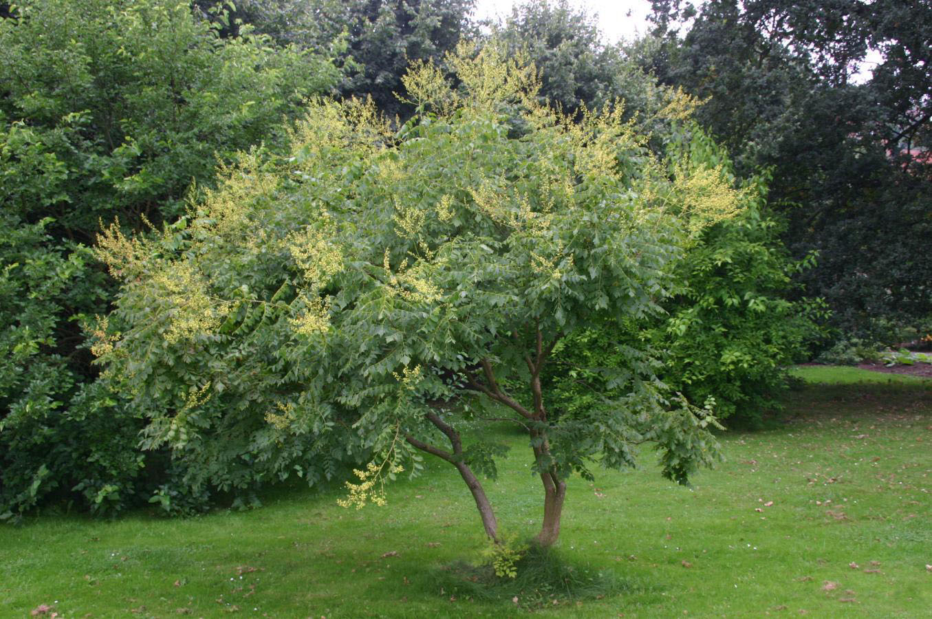 Koelreuteria paniculata: Flowering tree